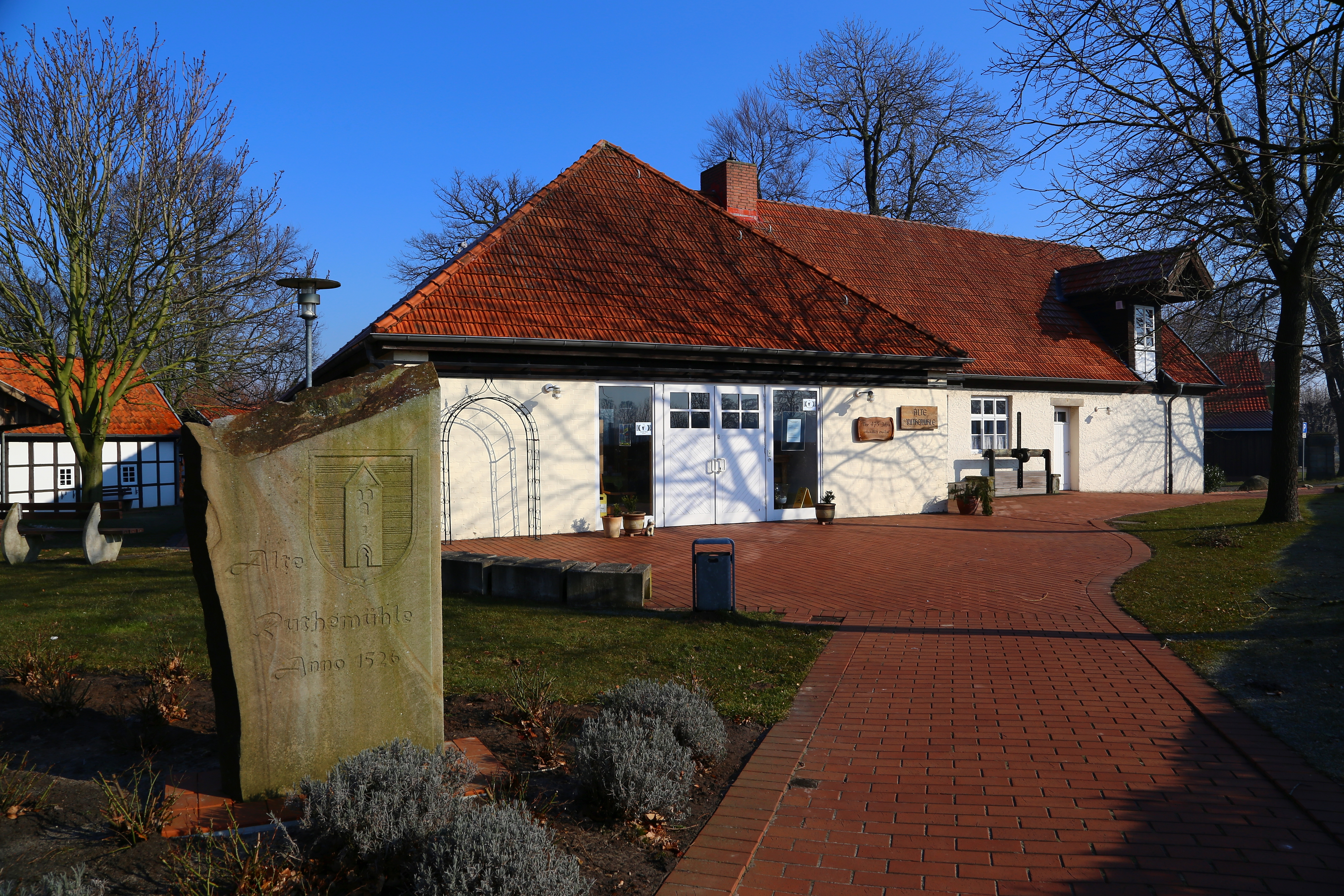 Alte Ruthemühle, a former water mill and now a basket and local museum in Recke, Kreis Steinfurt, North Rhine-Westphalia, Germany.